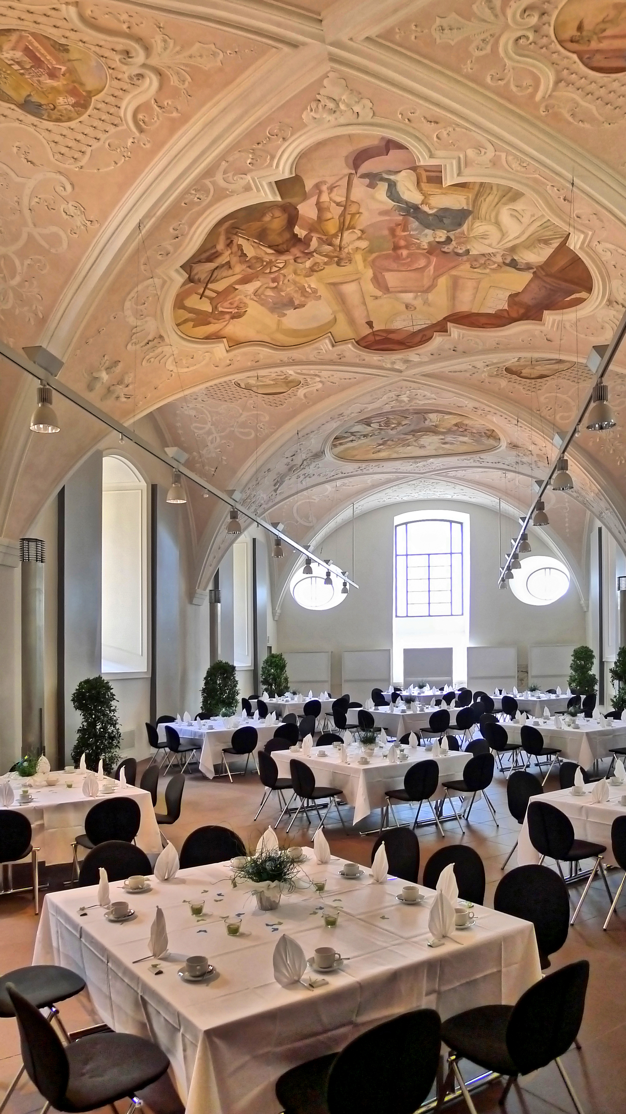 The Cistercian abbey Bronnbach.